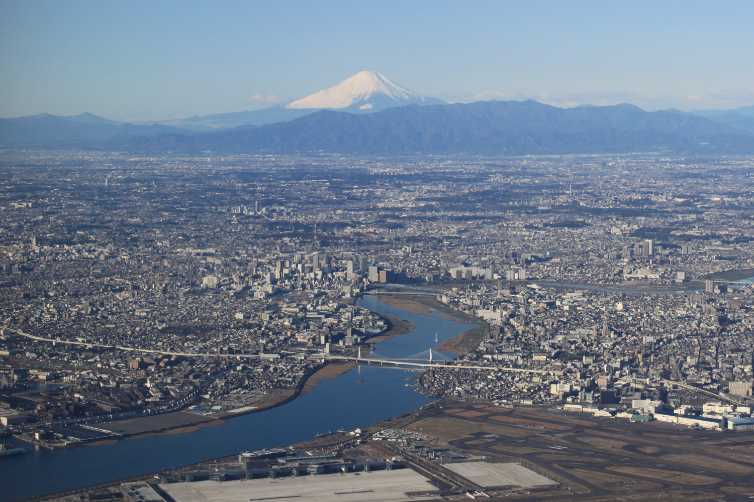 A view of western Tokyo and Kanagawa Prefecture. Tama River in the center. Tanzawa Mountains and Mount Fuji in the back. Tokyo International Airport in the bottom. Looking the weat.